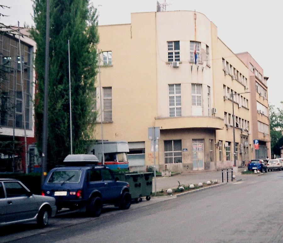 Radio Novi Sad (Radio Television of Vojvodina) building in Novi Sad.